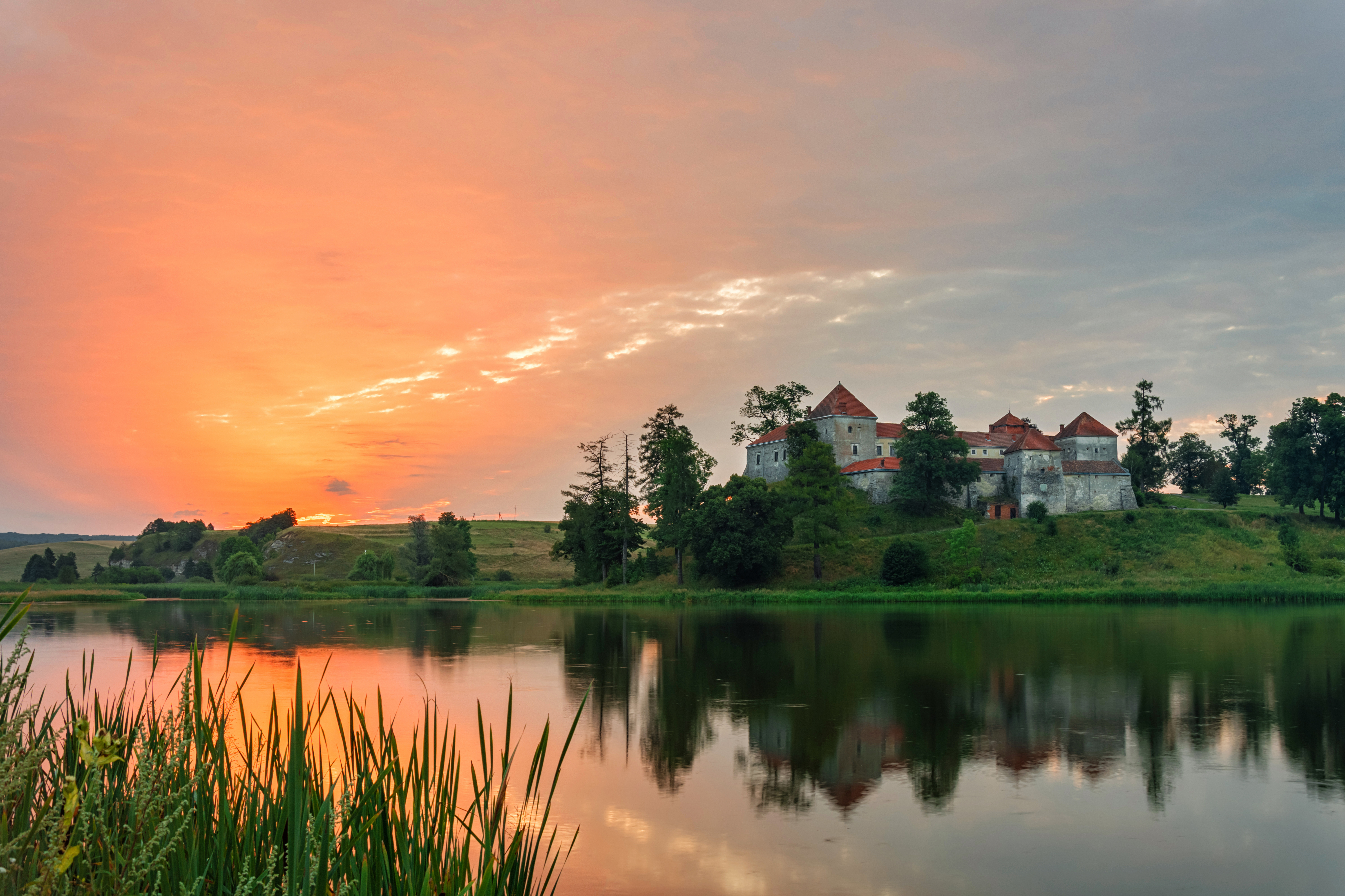 Svirzh Castle, Peremyshliany Raion, Lviv Oblast, Ukraine